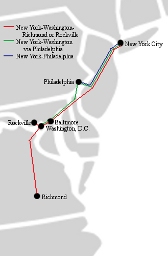 The Eastern Shuttle route network for the US bus company. The basic map was created from this image. The routes are color-coded.